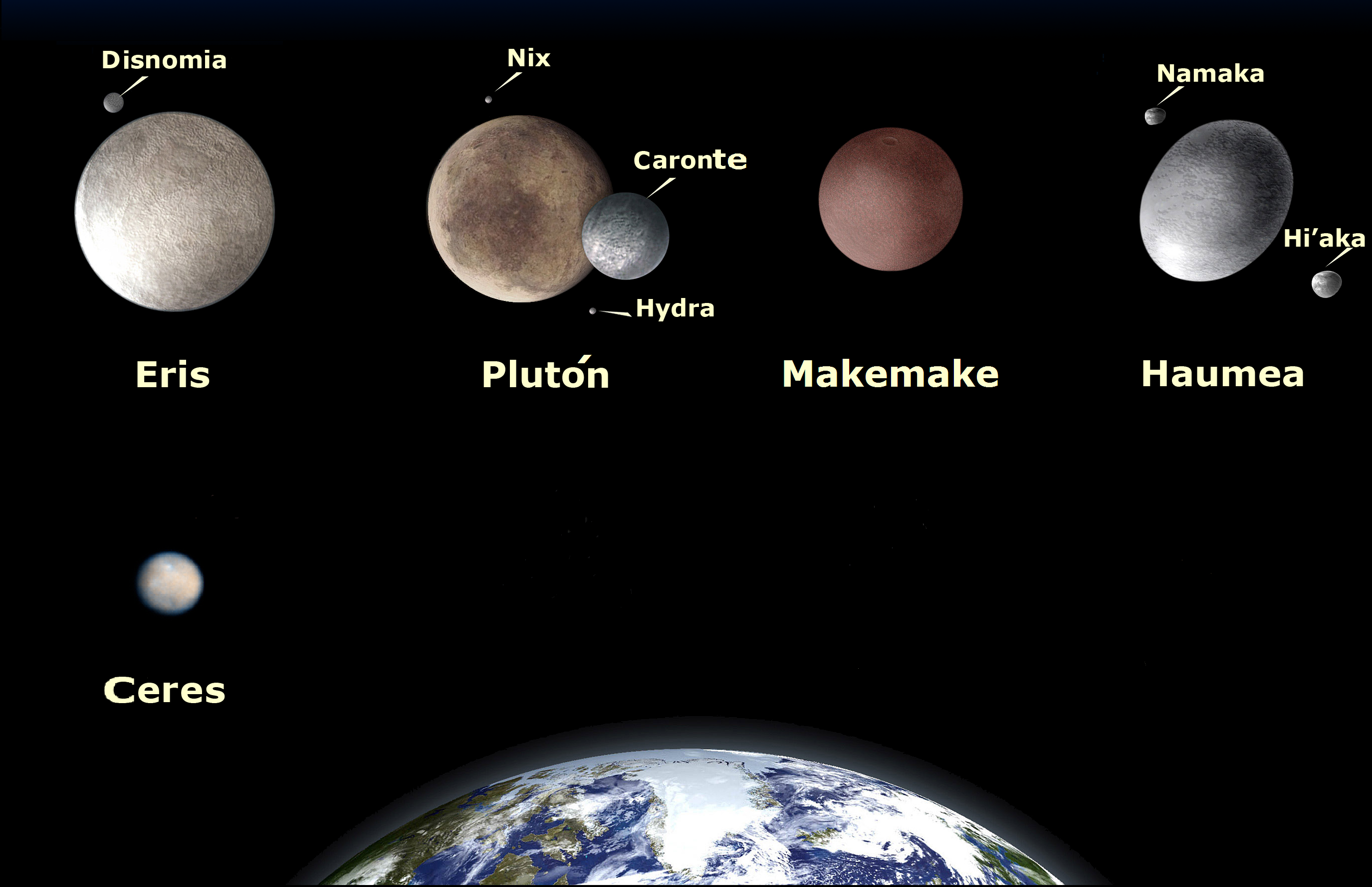 Dwarf planets and Earth (sizes to scale). A dwarf planet, as defined by the International Astronomical Union (IAU), is a celestial body orbiting the Sun that is massive enough to be rounded by its own gravity but has not cleared its neighbouring region of planetesimals and is not a satellite. More explicitly, it has to have sufficient mass to overcome its compressive strength and achieve hydrostatic equilibrium. It should not be confused with minor planet. The term dwarf planet was adopted in 2006 as part of a three-way categorization of bodies orbiting the Sun, brought about by an increase in discoveries of trans-Neptunian objects that rivaled Pluto in size, and finally precipitated by the discovery of an even larger object, Eris. This classification states that bodies large enough to have cleared the neighbourhood of their orbit are defined as planets, while those that are not massive enough to be rounded by their own gravity are defined as small solar system bodies. Dwarf planets come in between. The definition officially adopted by the IAU in 2006 has been both praised and criticized, and remains disputed by some scientists.